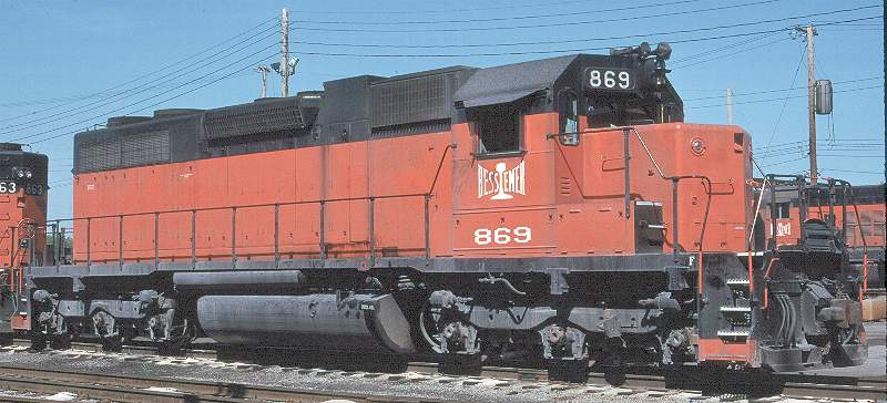 M.G. Lovis Photo; Photo is a typical roster shot of a B&LE SD38AC as seen in the 1980s.